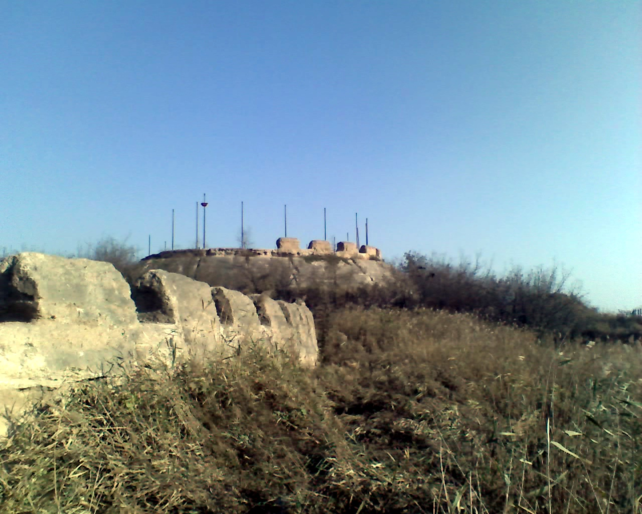 Taku Forts as they exist in 2006. Taken from below the defensive works, looking up at the gun platform.